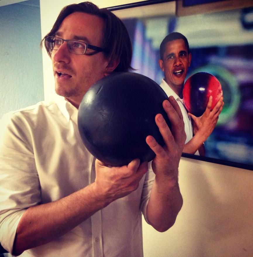 Derek Brown bowling at the Truman Bowling Alley in the Eisenhower Executive Office Building